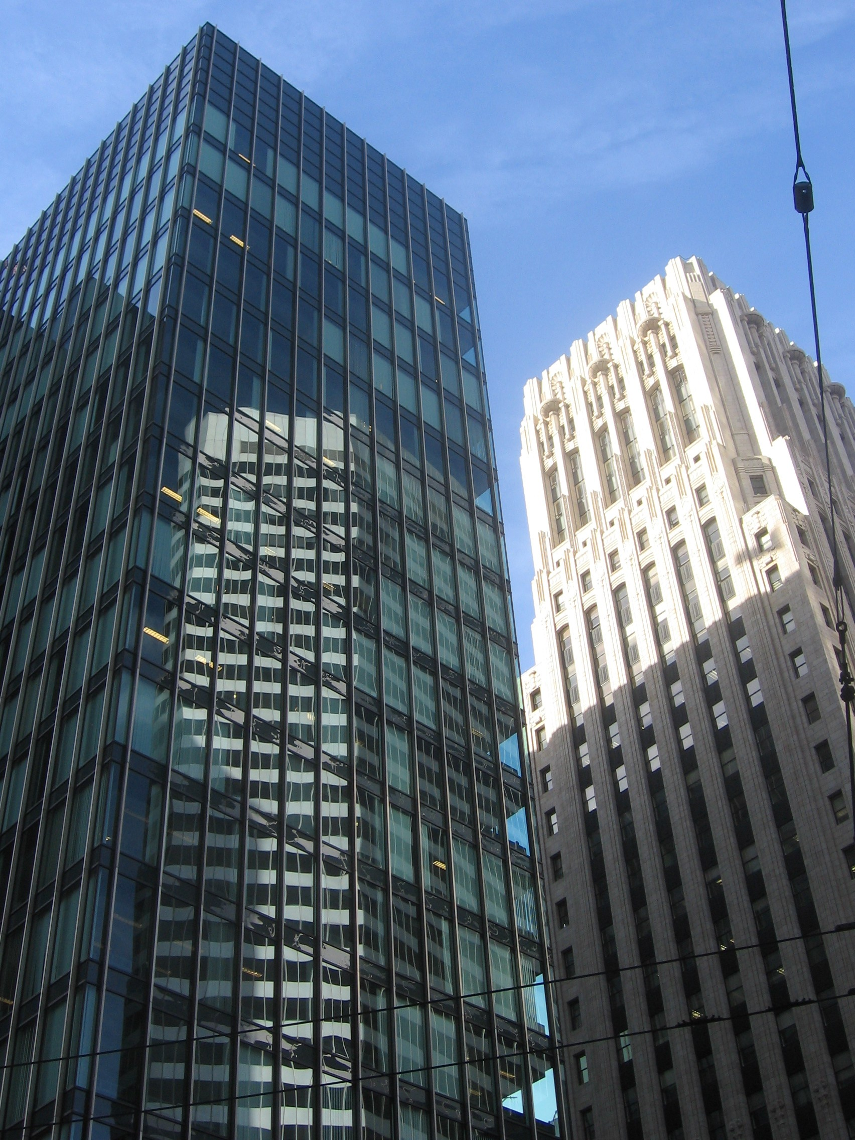 One Bush Street (Crown-Zellerbach Building) (left) standing alongside the Shell Building from Market Street, San Francisco, California. Taken by me December 2007